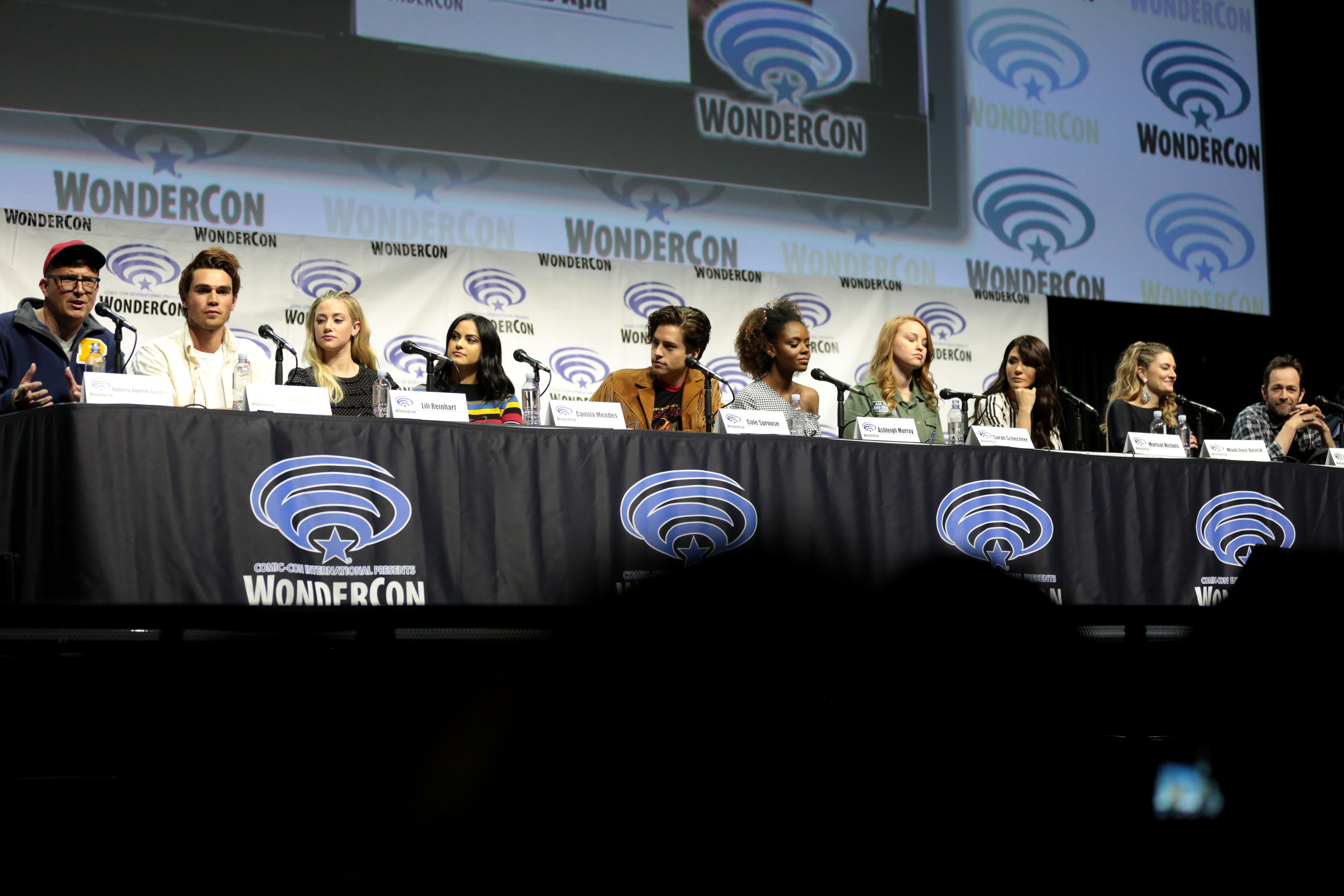 Robert Aguirre-Sacasa, KJ Apa, Lili Reinhart, Camila Mendes, Cole Sprouse, Ashleigh Murray, Sarah Schechter, Marisol Nichols, Madchen Amick and Luke Perry speaking at the 2017 WonderCon, for "Riverdale", at the Anaheim Convention Center in Anaheim, California.